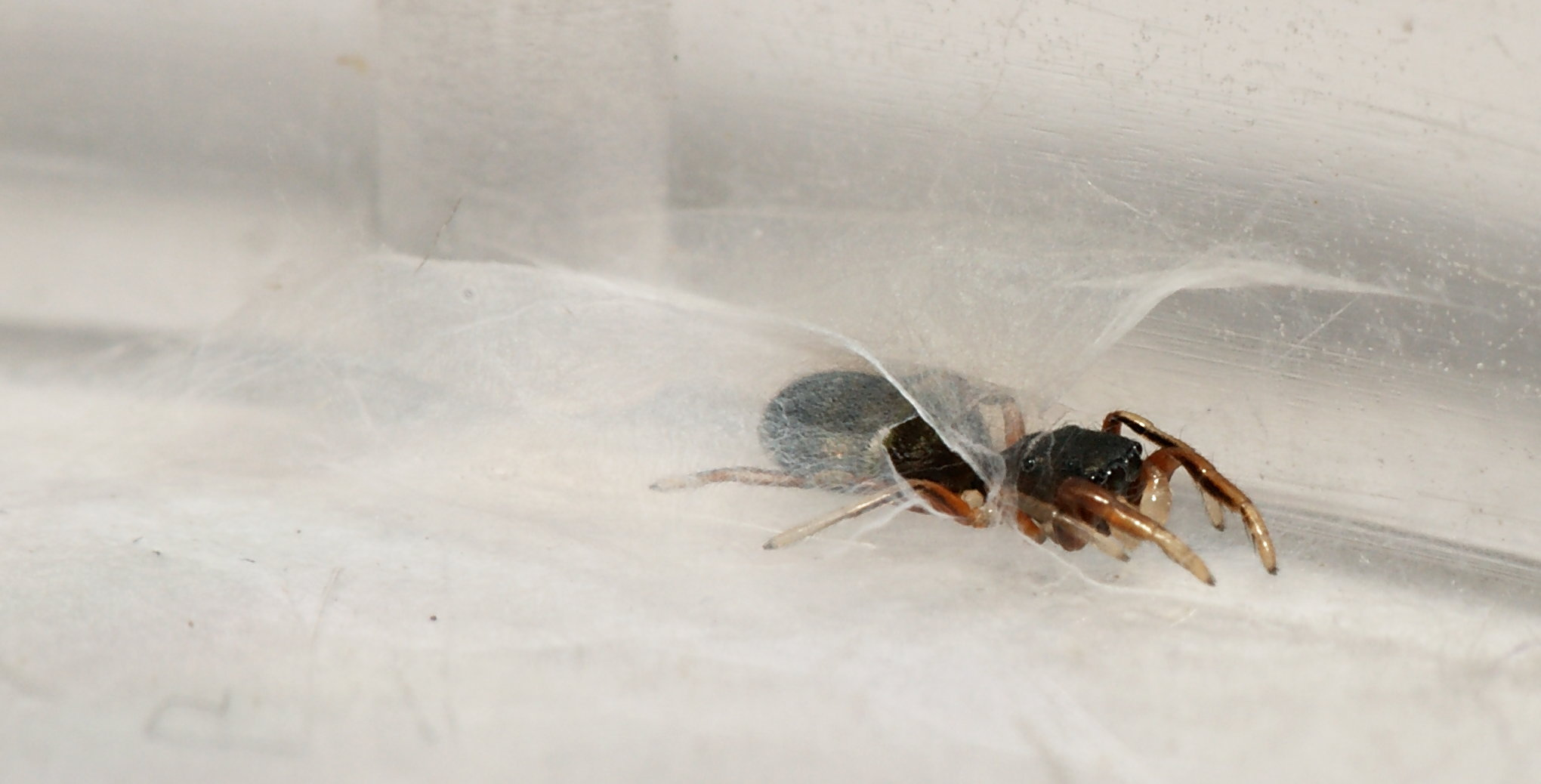 Synageles venator emerging from its silken retreat. Caught in Cologne Zoo, Germany.